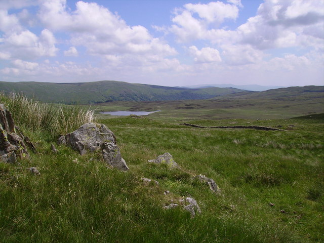 Green Quarter Fell. On the descent form Hollow Moor looking towards Skeggles Water